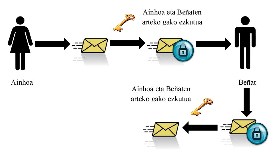 Simetrikoa